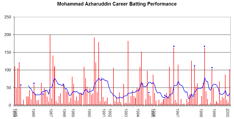 This graph details the Test Match performance of Mohammad Azharuddin. It was created by Raven4x4x. The red bars indicate the player's test match innings, while the blue line shows the average of the ten most recent innings at that point. Note that this average cannot be calculated for the first nine innings. The blue dots indicate innings in which Azharuddin finished not-out. This graph was generated with Microsoft Excel 2002, using data from Cricinfo and .au.